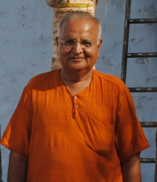 Eminent Gujarati Writer Dhruv Bhatt ગુજરાતી: ગુજરાતી લેખક ધ્રુવ ભટ્ટ